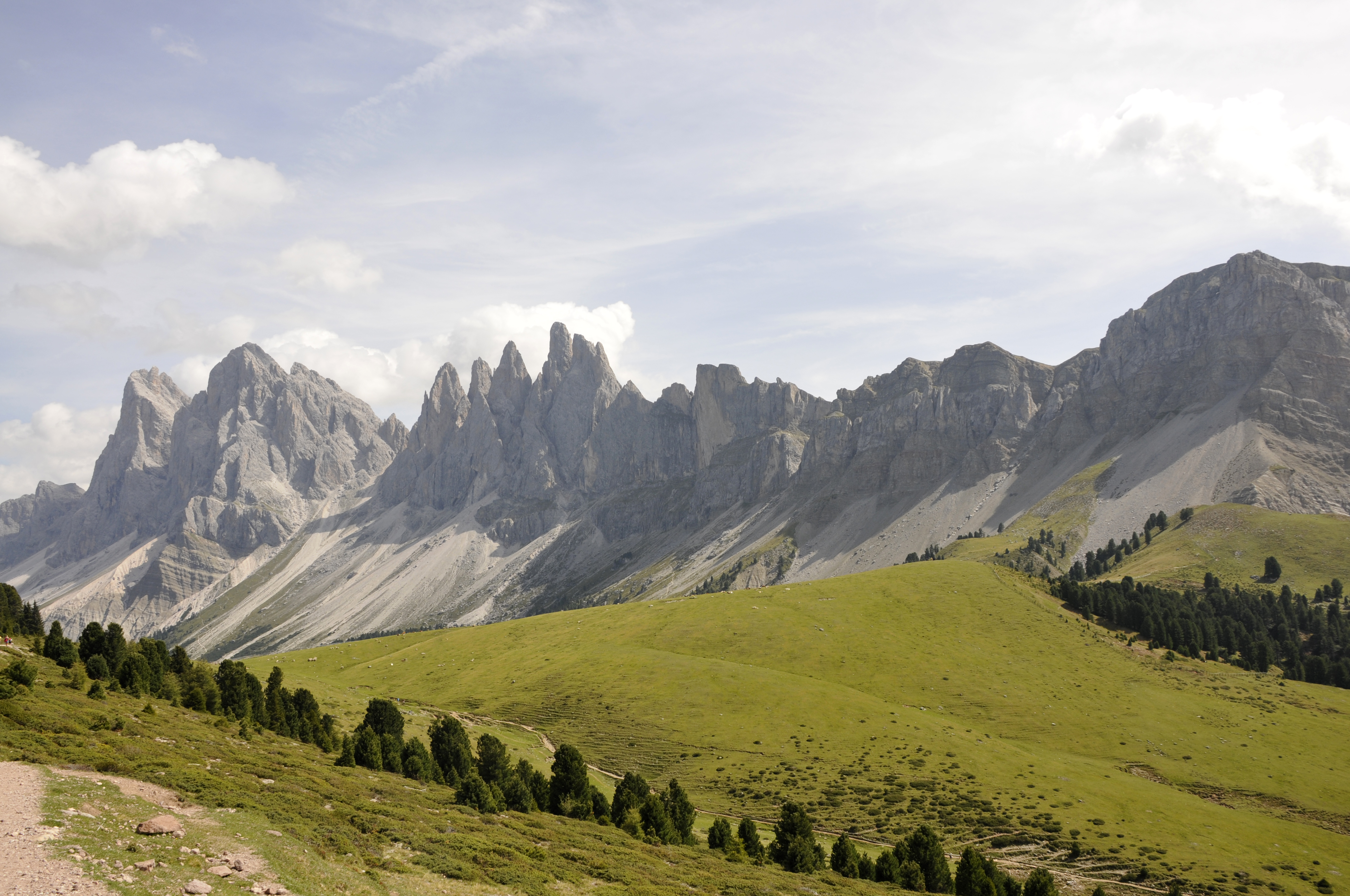 Schienboden on the Resciesa de dite Gröden